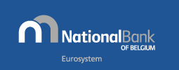 Logo of the National Bank of Belgium